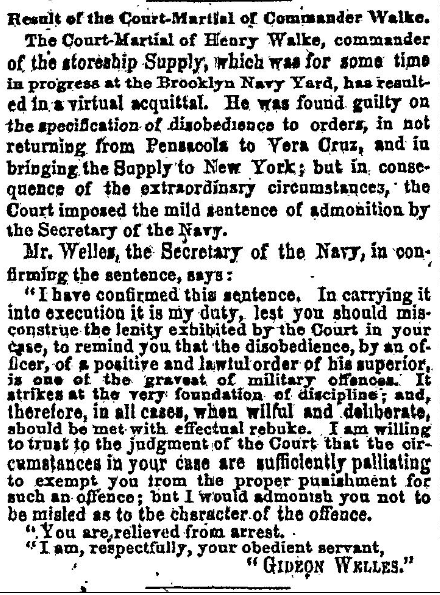 Results of the Court-Martial of Commander Walke, Evening Post, March 29, 1861, Page 1. Note: "Mr. Welles, the Secretary of the Nary, in confirming the sentence, says: I have confirmed this sentence. In carrying it into execution it is my duty, lest you should misconstrue the lenity exhibited by the Court in your case, to remind you that the disobedience, by an officer, of a positive and lawful order of his superior, is one of gravest of military offenses. It strikes at the very foundation of discipline; and therefore, in all cases, met with effective rebuke. I am willing to trust the judgment of the Court that the circumstances in your case are sufficiently palliating to exempt you from the proper punishment for such an offense; but I would admonish you not to be misled as to the character of the offense. You are relieved from arrest. I am, respectfully, your obedient servant, Gideon Welles."